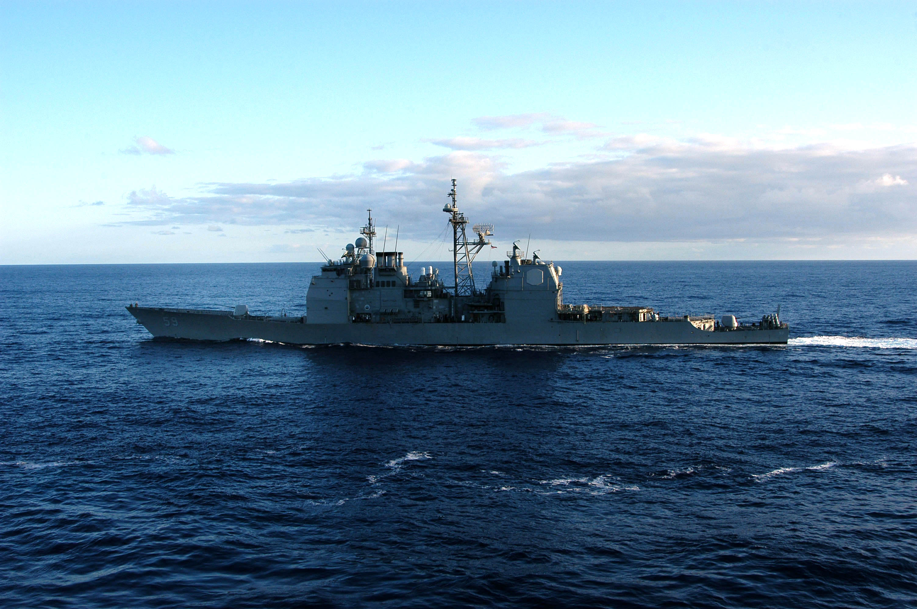 Pacific Ocean (May 11, 2005) – The guided missile cruiser USS Princeton (CG 59) comes along side the nuclear-powered aircraft carrier USS Nimitz (CVN 68) in preparation for a underway replenishment (UNREP) with the Military Sealift Command (MSC) fast combat support ship USNS Bridge (T-AOE 10). The Nimitz Carrier Strike Group is currently deployed in support of the global war on terrorism. U.S. Navy photo by Photographer’s Mate 2nd Class Tiffini M. Jones (RELEASED)